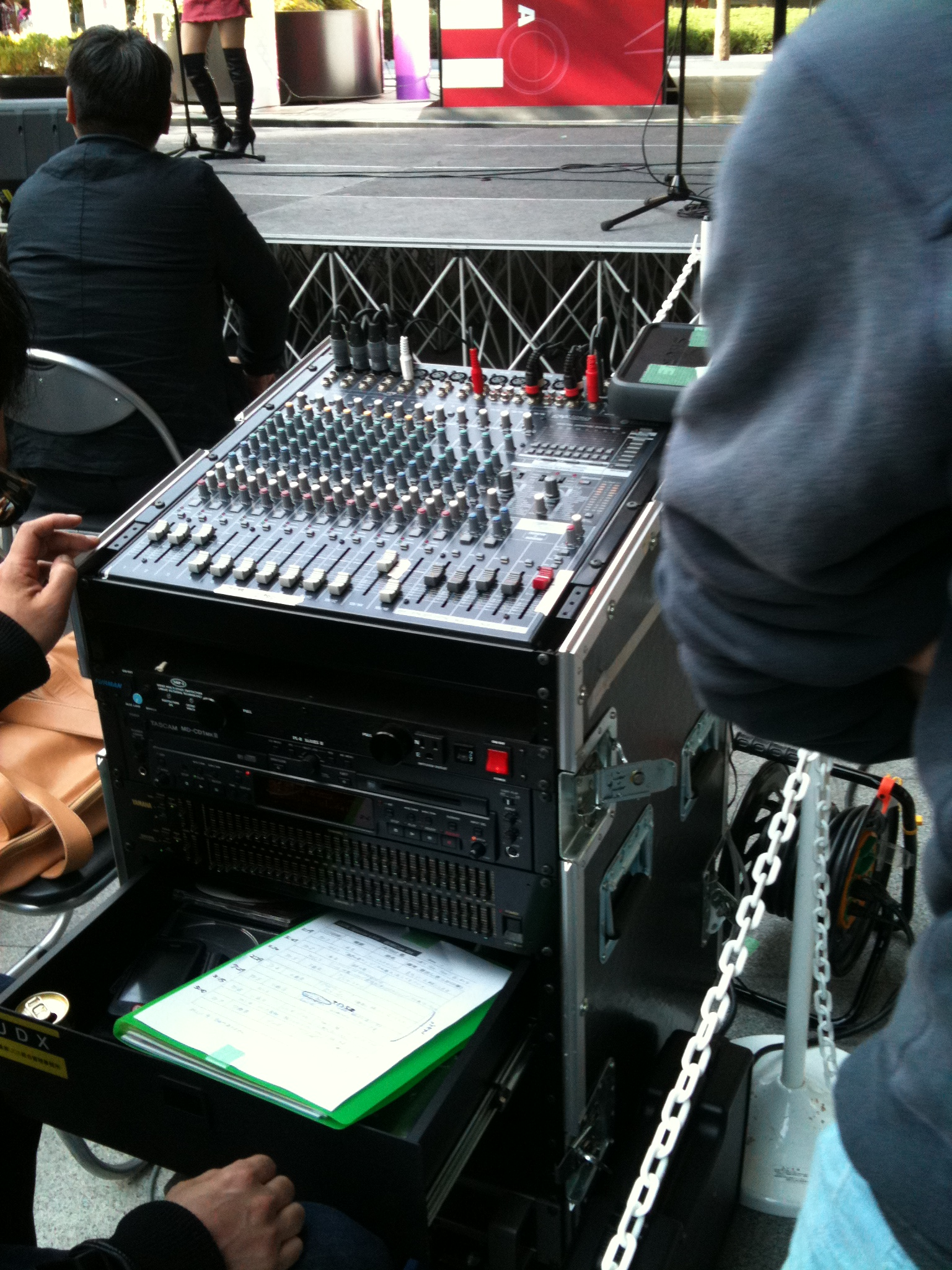 FOH of “Golden-days Special Live”, AKIBA_ICHI, Akihabara UDX powered mixer: YAMAHA EMX5016CF (16in/12mic/4bus/2out, 2×SPX, 2×9band GEQ, output:500W@4Ω/ch or 370@8Ω/ch) main speakers: 2 x Electro-Voice foldbacks: 2 x unknown FOH rack: conditioner: Furman CD/MD player: TASCAM MD-CD1MkII graphic eq: YAMAHA